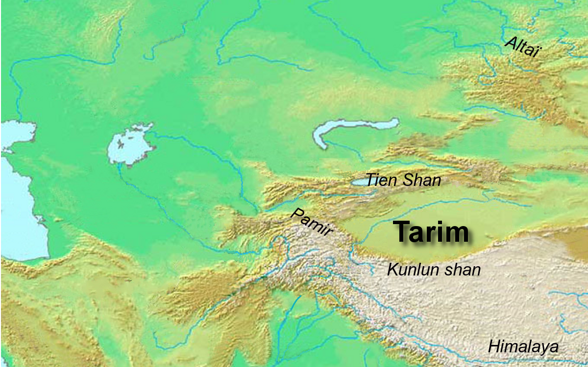 Tarim bassin with moutains